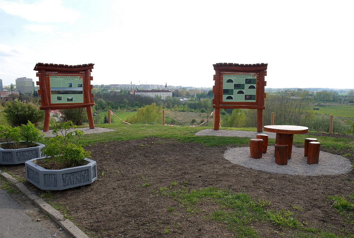 Řepy education trial, Reiner View, Reinerova str., Řepy, Prague 17-Řepy, Capital city Prague. View of Řepy with seating and information boards of education trial no. 8 and 9.